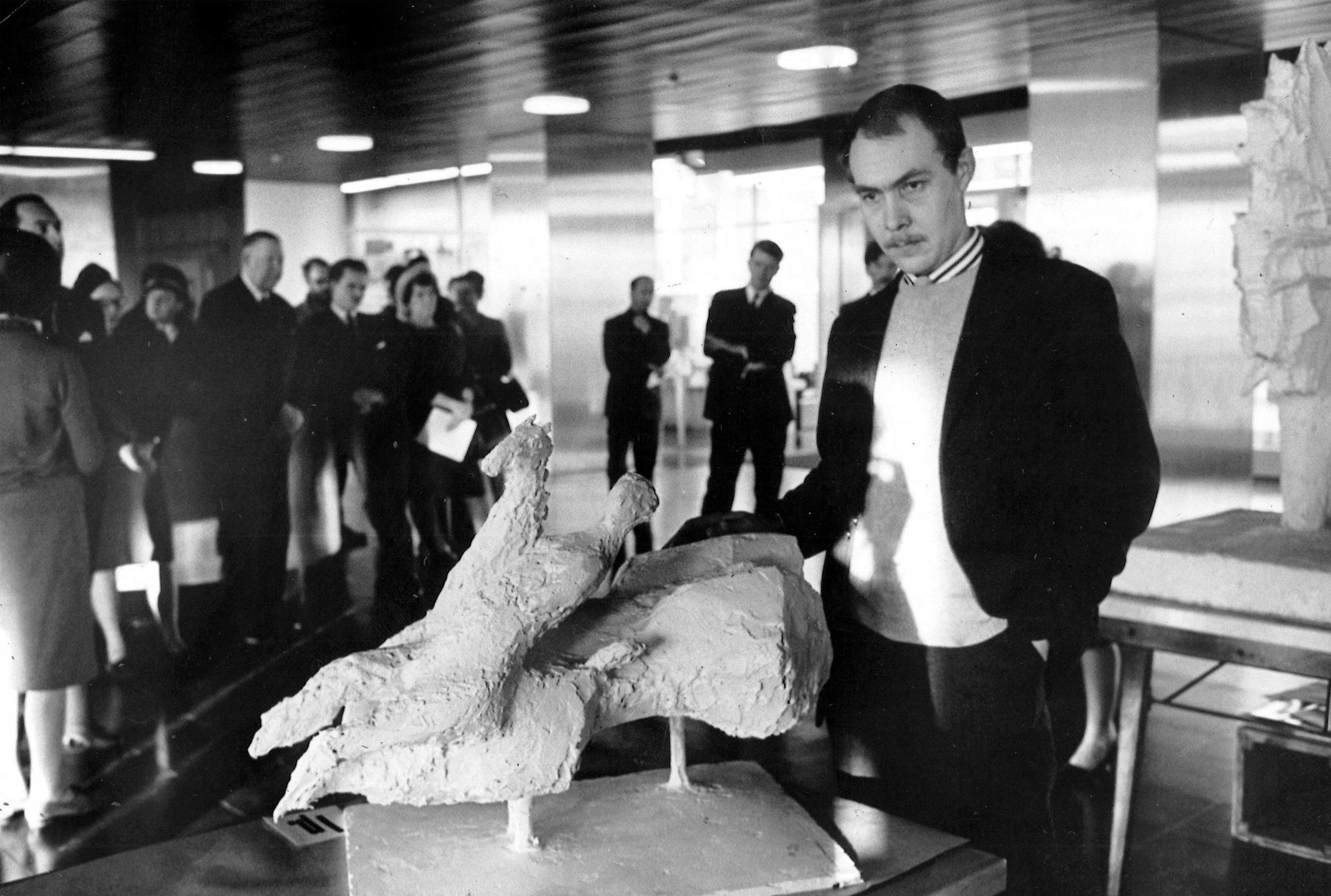 Photograph of the Finnish sculptor Kari Juva (1939–2014) with a model of Thalia ja Pegasos.